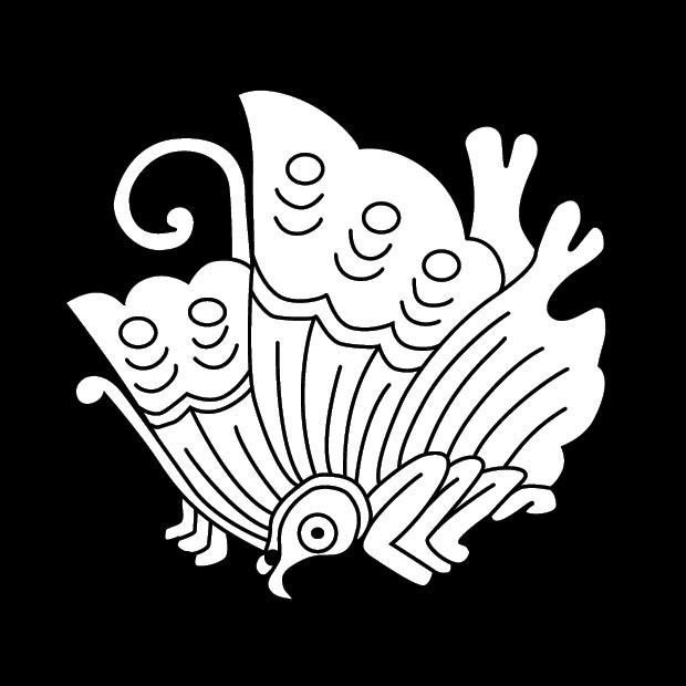 Crest of Taira family, Japan